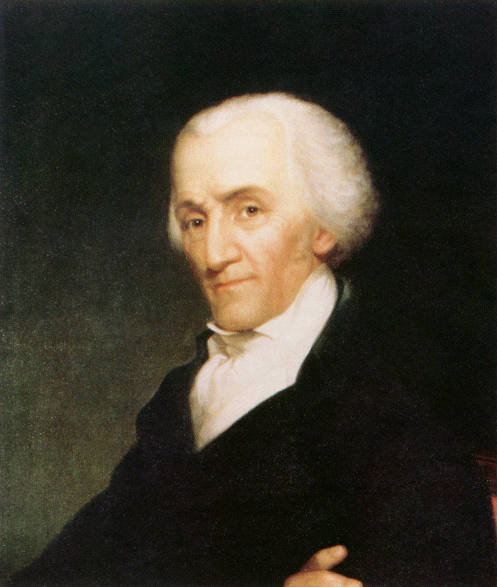 Elbridge Gerry (1744–1814), American statesman